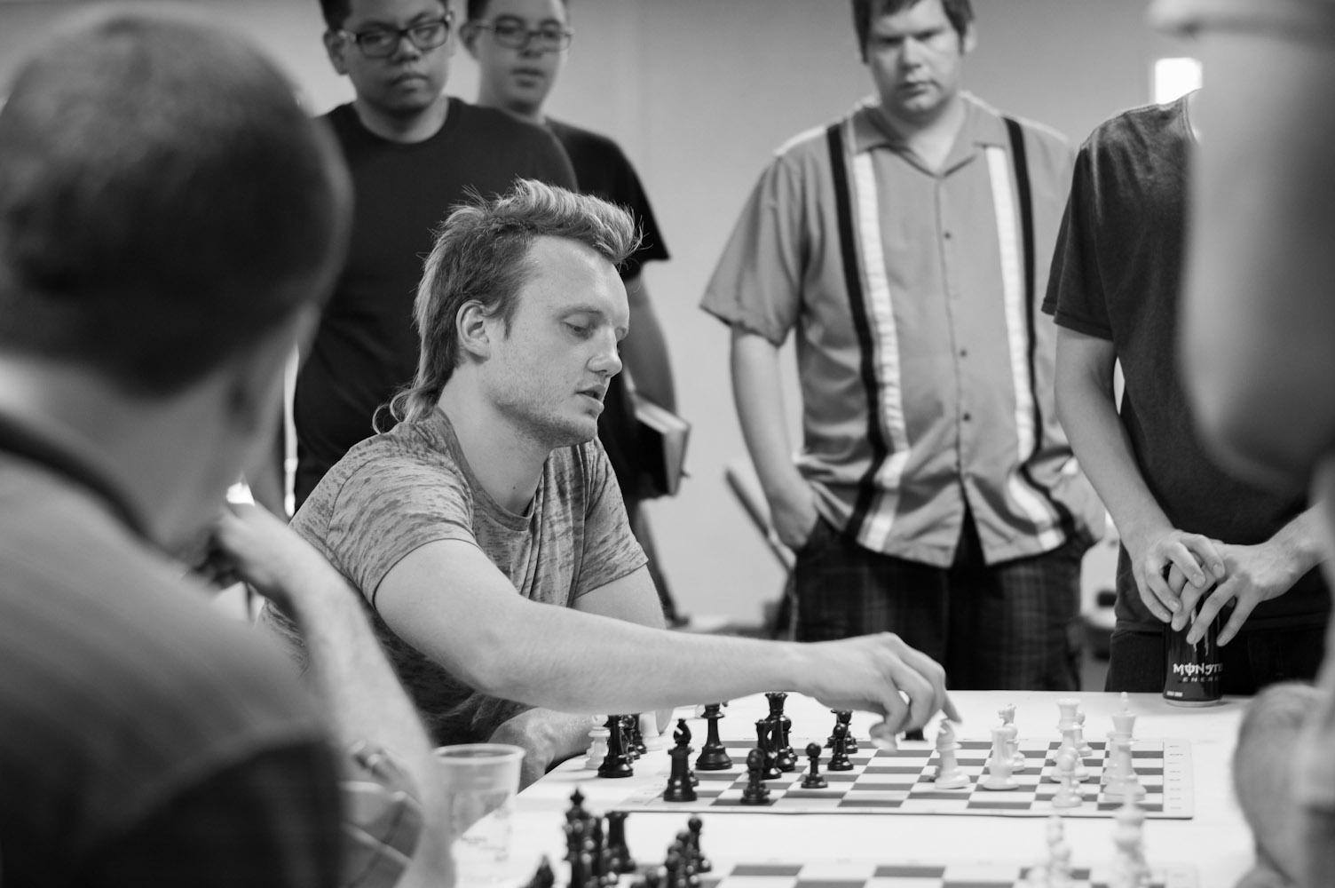 Blindfold Chess Expert GM Timur Gareyev